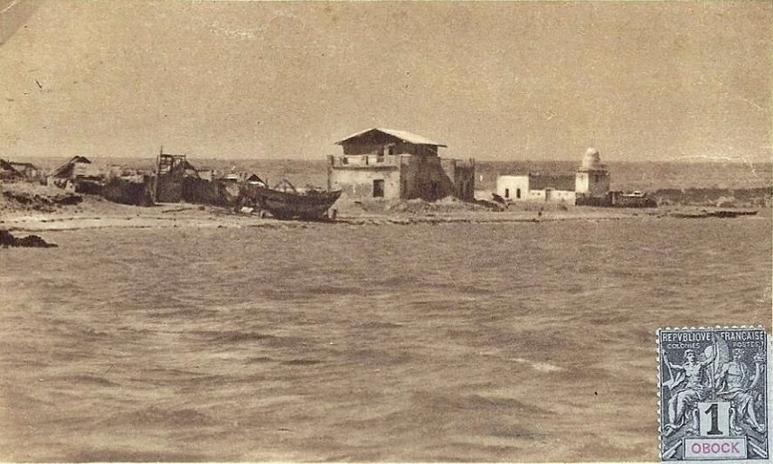 House of Henry de Monfreid at Obock (Djibouti). On the right, the village's small mosque. Postcard from the 1930s. The stamp, dates from the time Obock was a colony (before 1897).